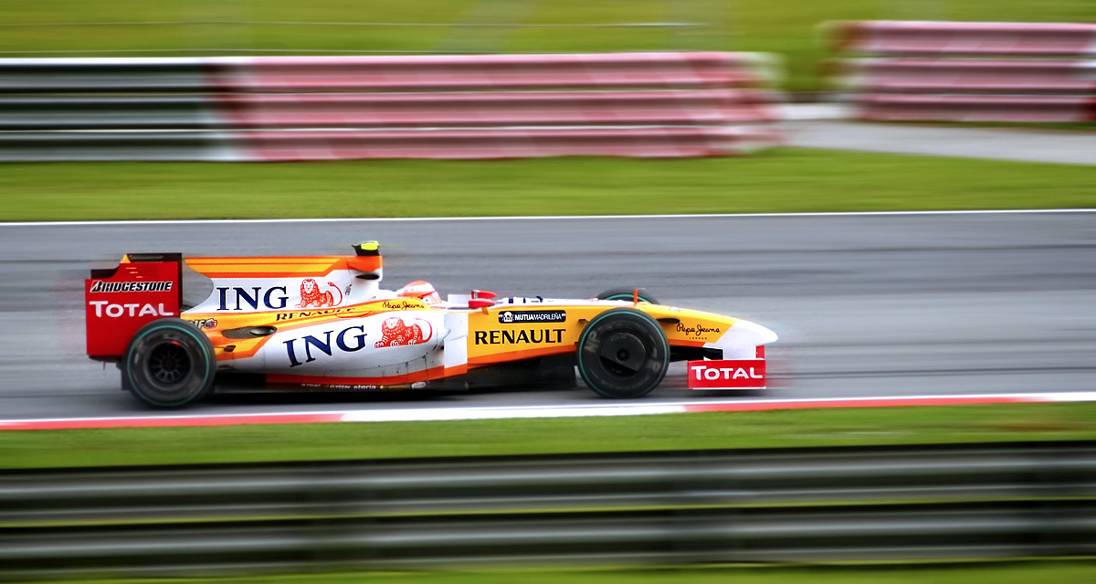 Nelson Angelo Piquet at 2009 Malaysian Grand Prix, Sepang, Malaysia.